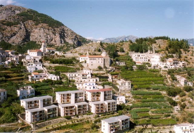 Pogerola (Italy)